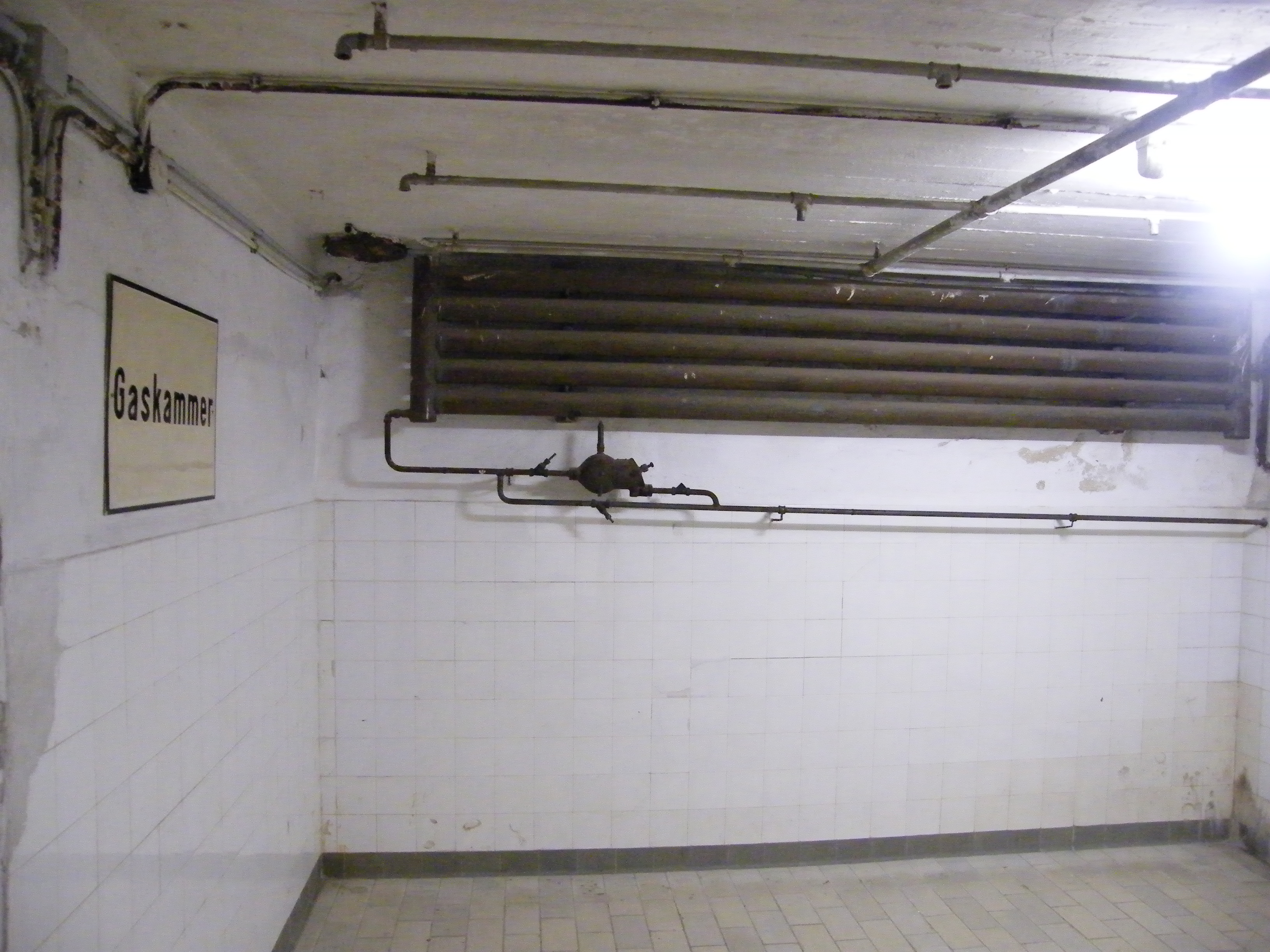 Mauthausen gas chamber pretending to be a bathroom